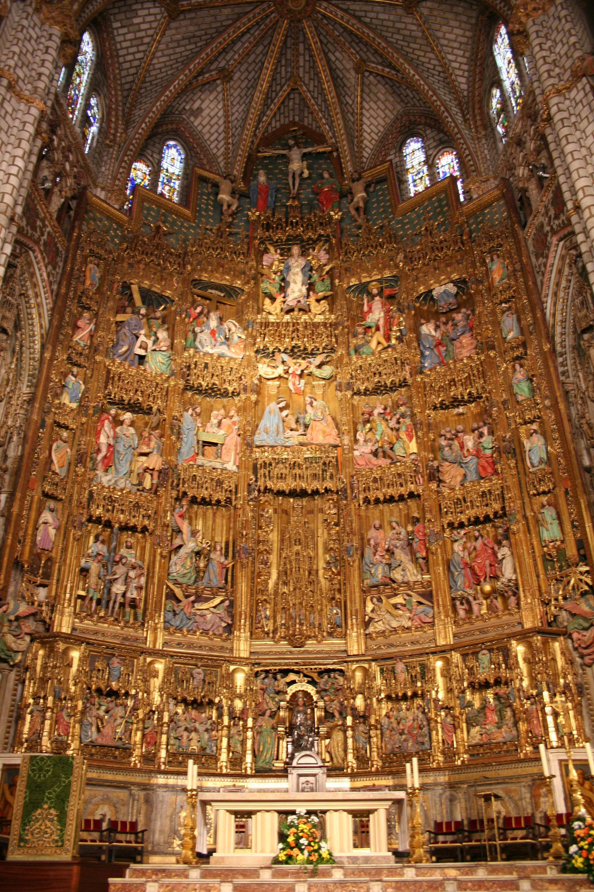 Retable